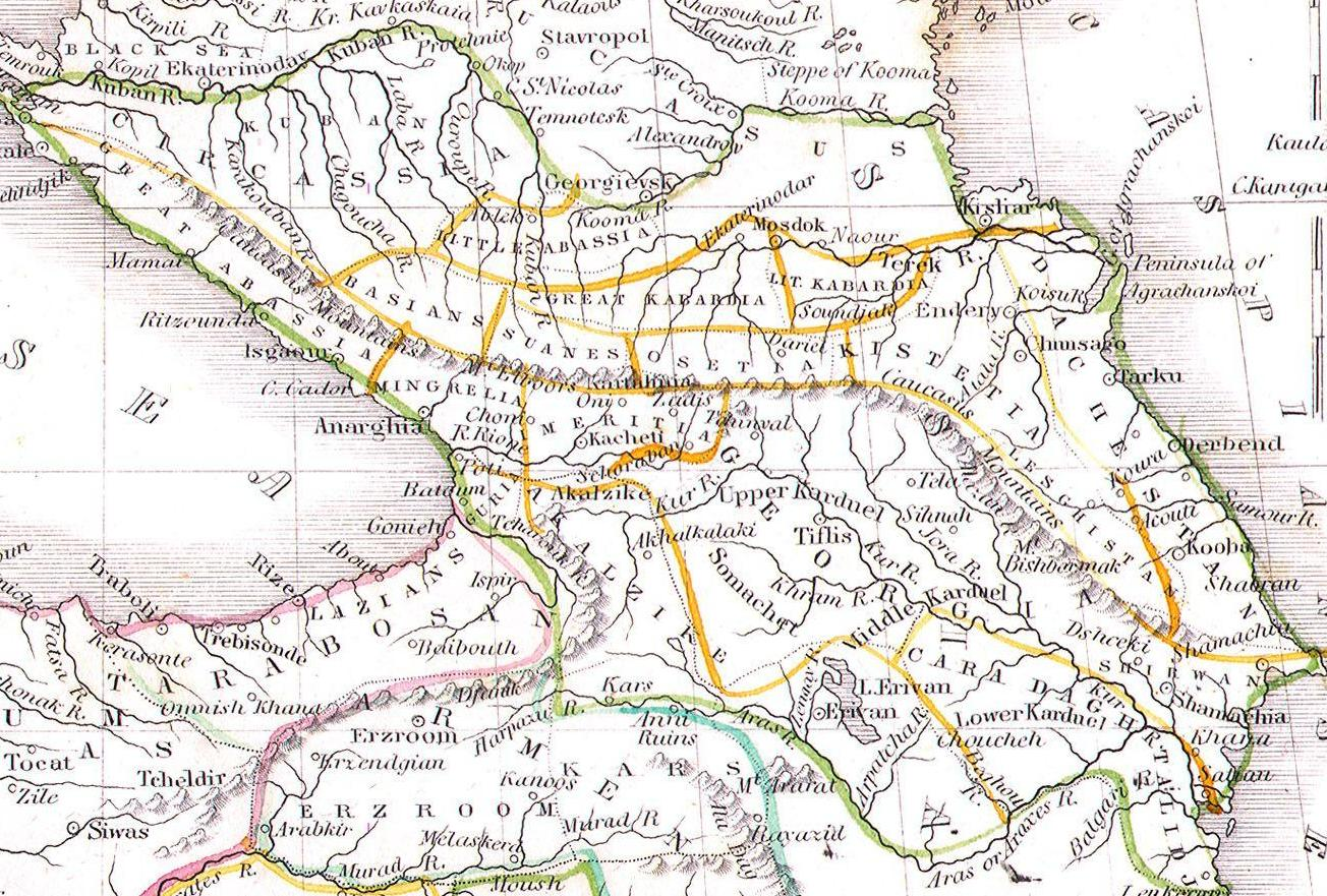 This unusual map depicts the Asian portions of Turkey, the Black Sea, the Caucuses (Georgia, Azerbaijan, and Armenia), and what is today Israel/Palestine, Jordan, Syria, Lebanon, and Iraq.